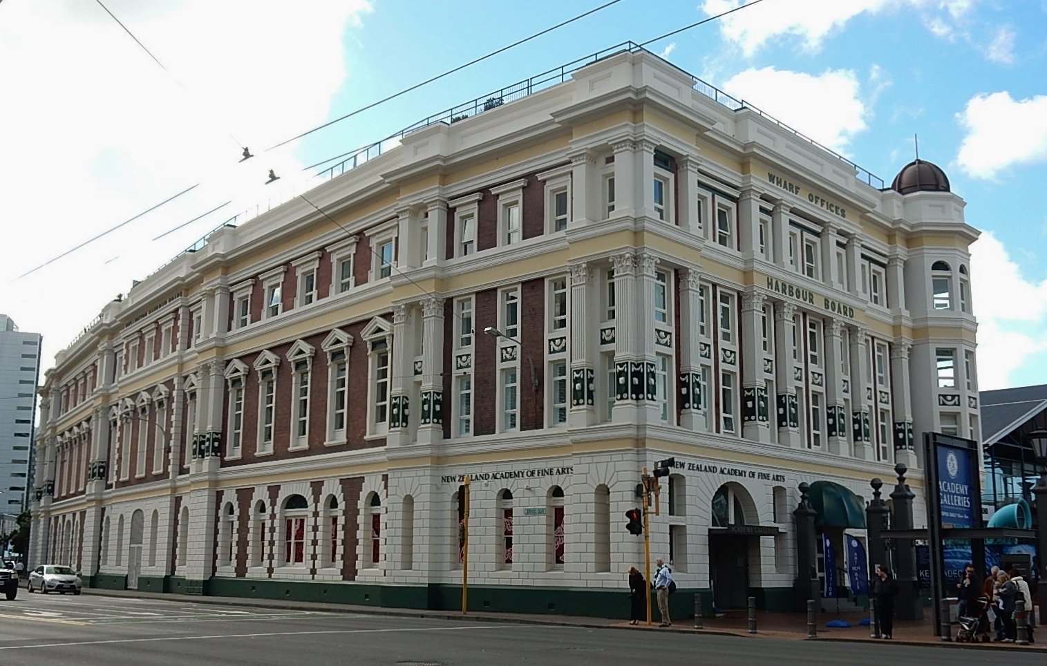 Recycled Harbour Board bldg Academy of Fine Arts 2016